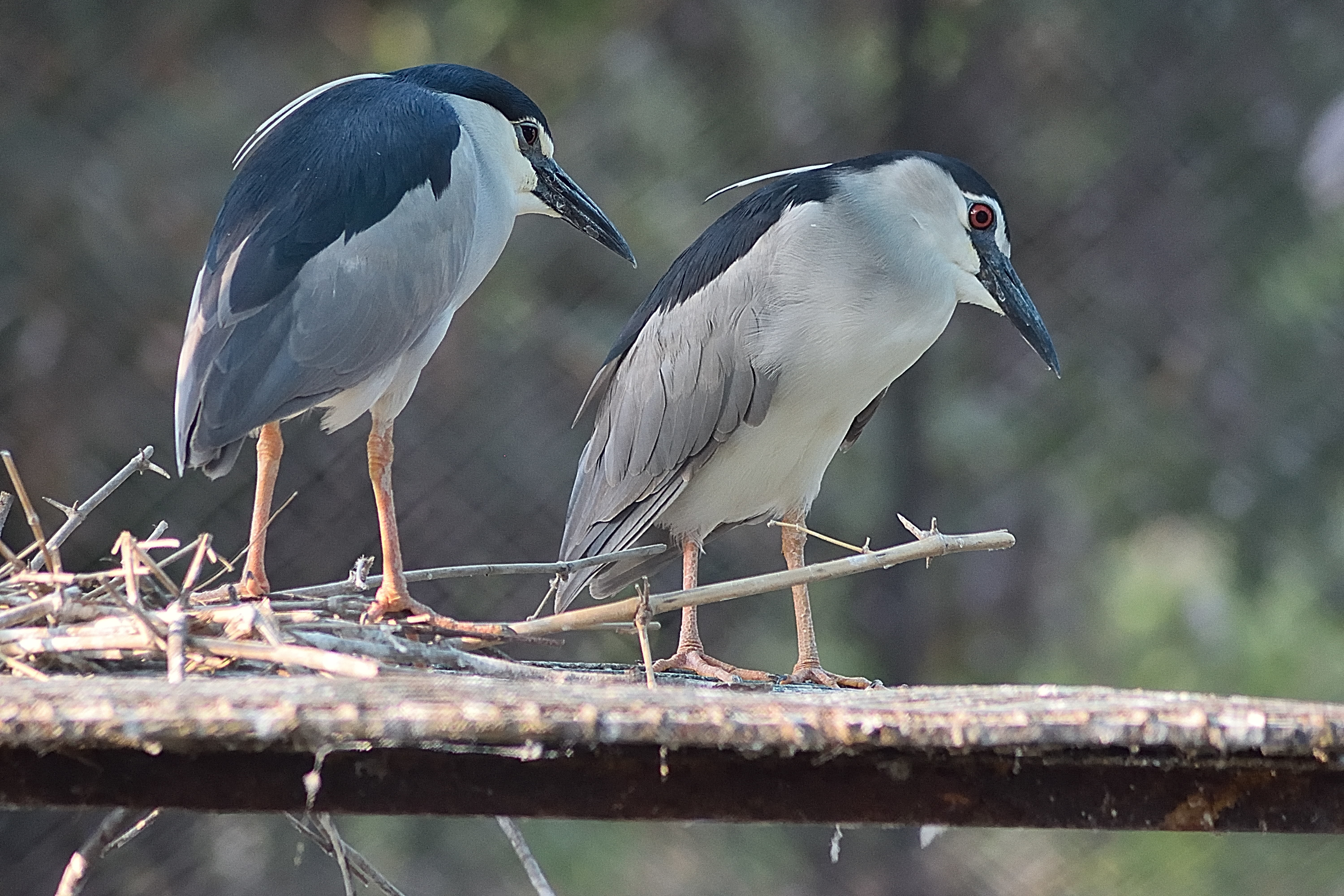 Birds in Lake - Vandalur Zoo